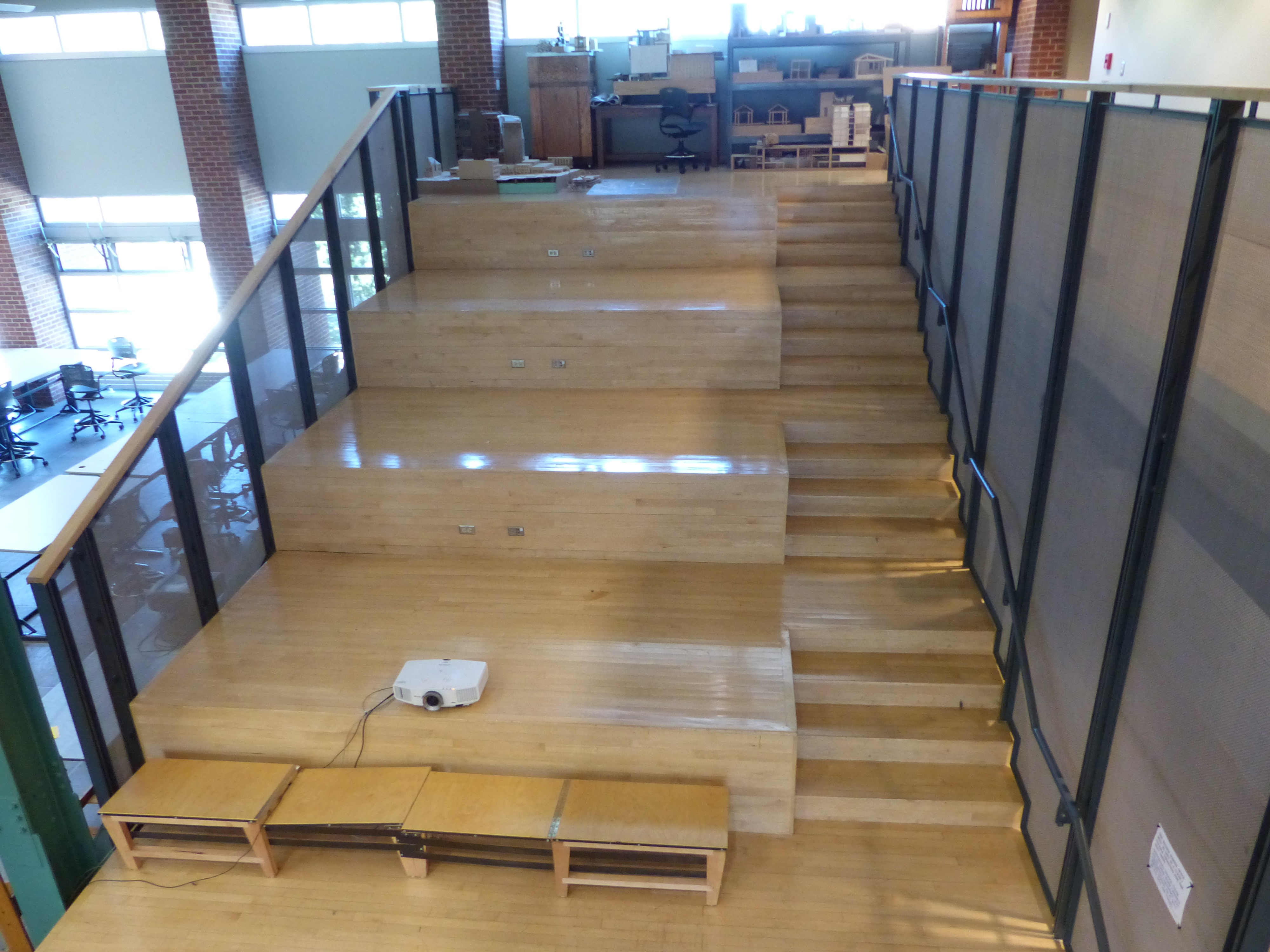 architecture